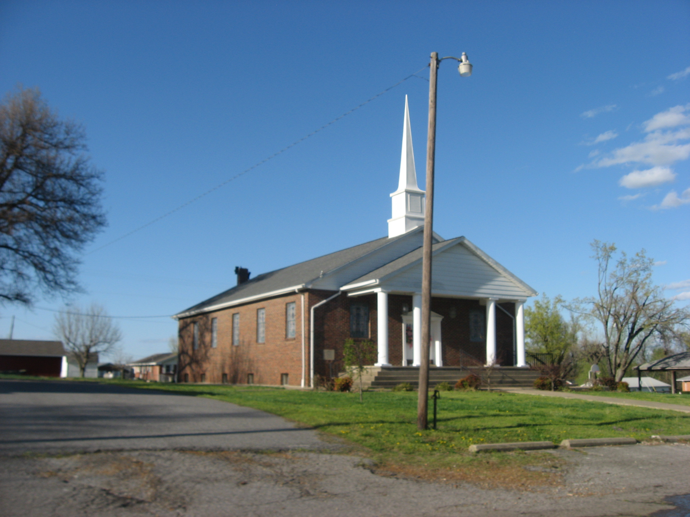 Front and western side of the Corinth United Methodist Church, located on U.S. Route 62 just east of the Kentucky Route 1820 intersection at Cunningham in Carlisle County, Kentucky, United States.